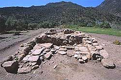 Photo of the Mycenean megaron in the Methana